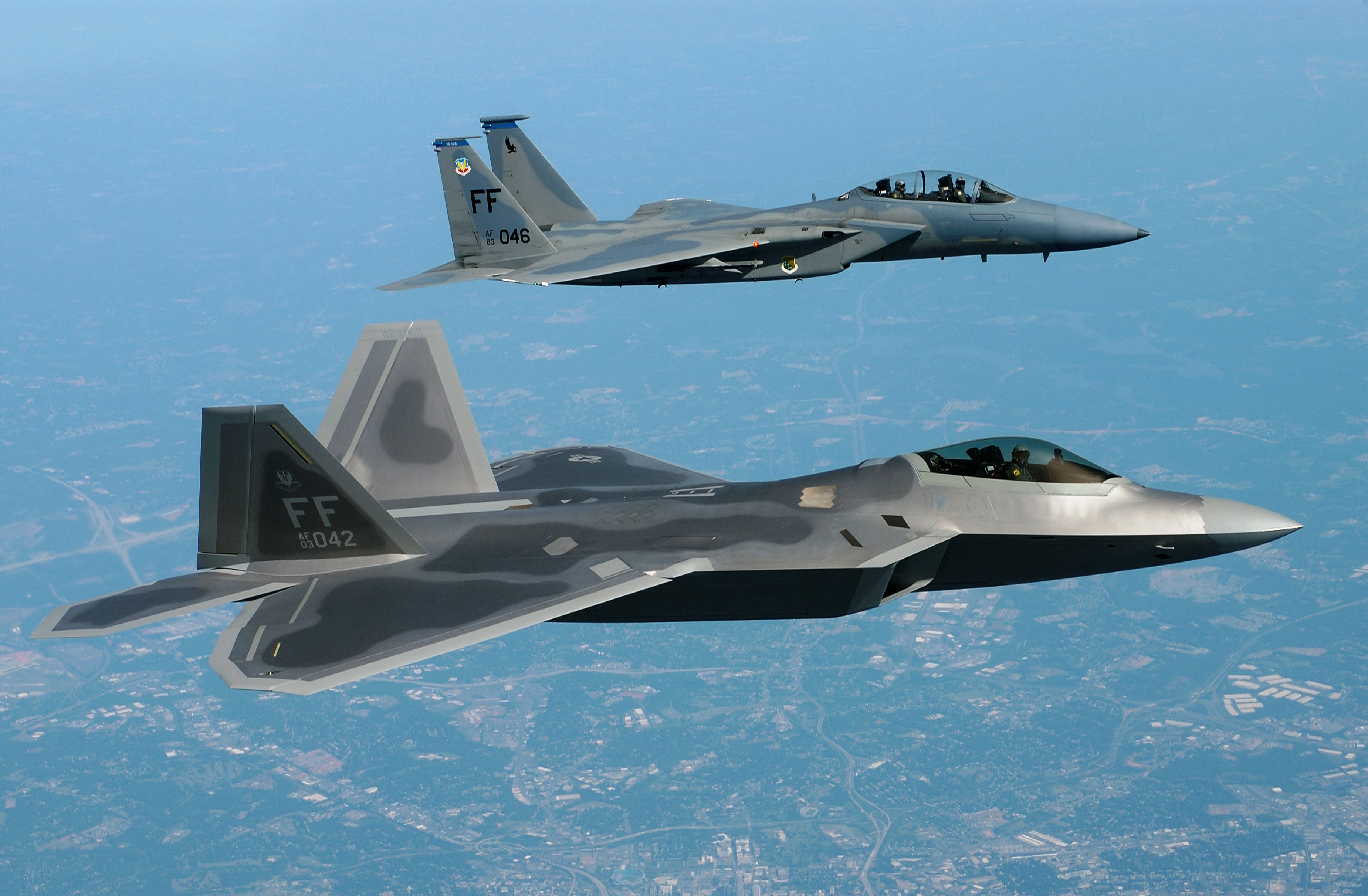 Lt. Col. James Hecker (foreground) delivers the first operational F/A-22 Raptor to its permanent home at Langley Air Force Base, Va., on May 12. This is the first of 26 Raptors to be delivered to the 27th Fighter Squadron. The Raptor program is managed by the F/A-22 System Program Office at Wright-Patterson AFB, Ohio. Colonel Hecker is the squadron's commander.